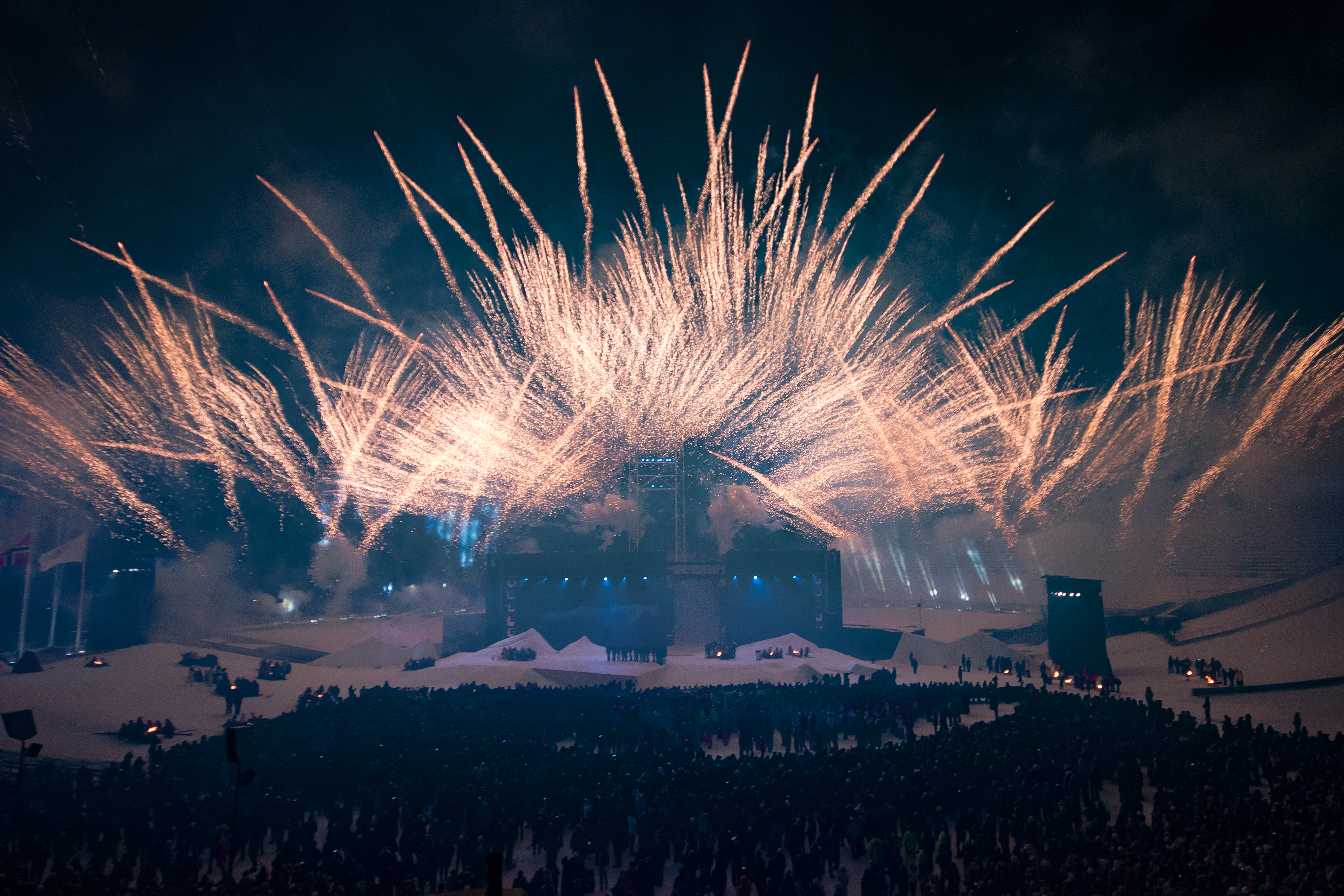 Lillehammer 2016 Winter Youth Olympics grand opening! I have been photographing the youth ol winter olympics for 4 days now... I feel sorry for my sensor, when I've already taken 11 000 exposures.